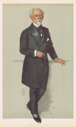 Caricature of Paul Cambon. Caption read "His Excellency The French Ambassador".